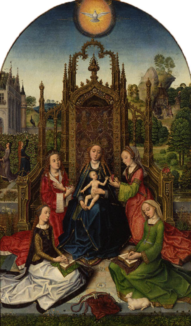 The Virgo inter virgines, oil on panel, 99 x 59 cm. Richmond, Virginia Museum of Fine Arts. A copy after Hugo van der Goes.